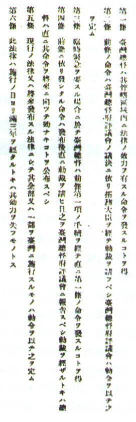 Liusan Law from